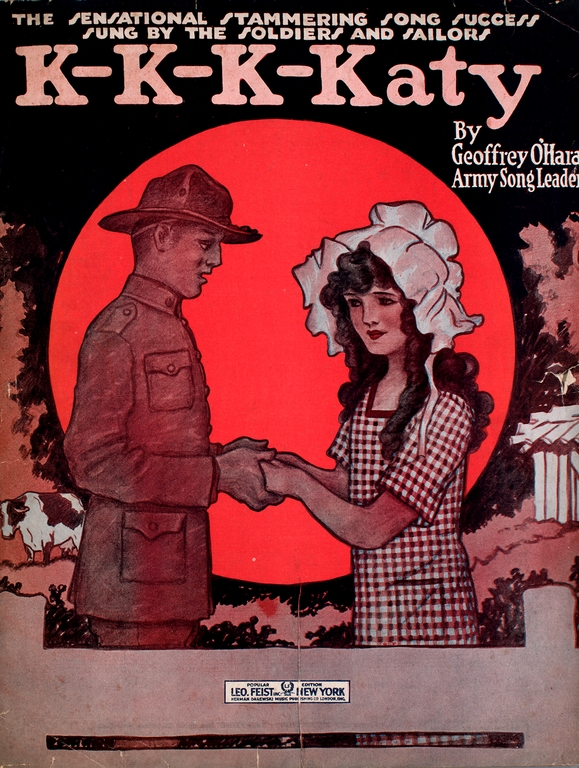 Original 1918 cover of "K-K-K-Katy", by Leo Feist in New York. A transcription of the song's lyrics can be found on Wikisource at K-K-K-Katy.